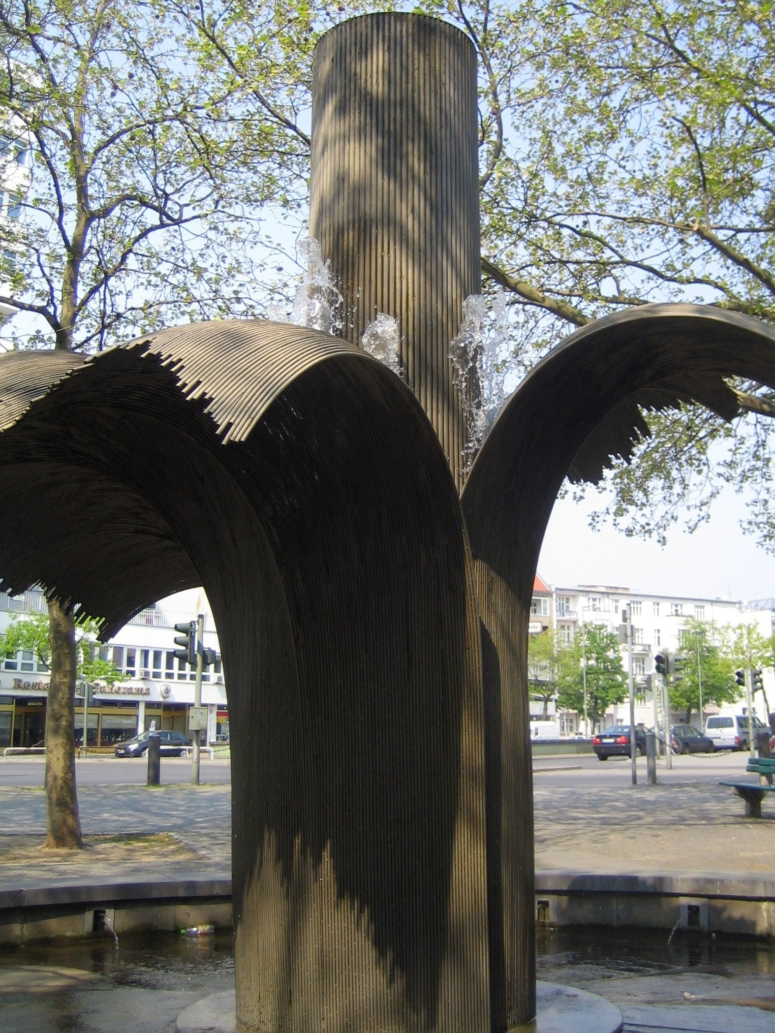 A fountain called "Säule in der Brandung" (column in the midst of waves) at Adenauerplatz in Berlin-Charlottenburg (Germany). Built up in 1975. Design: Brigitte und Martin Matschinski-Denninghoff.